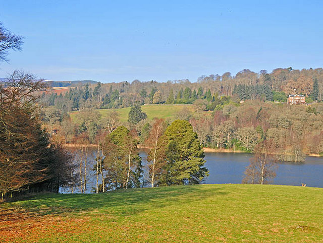 Loch Monzievaird Ochtertyre House in the distance on the right